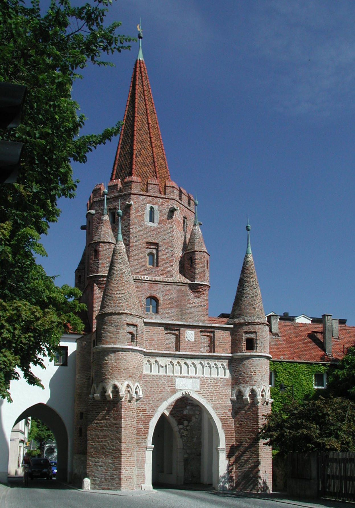 Ingolstadt, city gate from 14th century